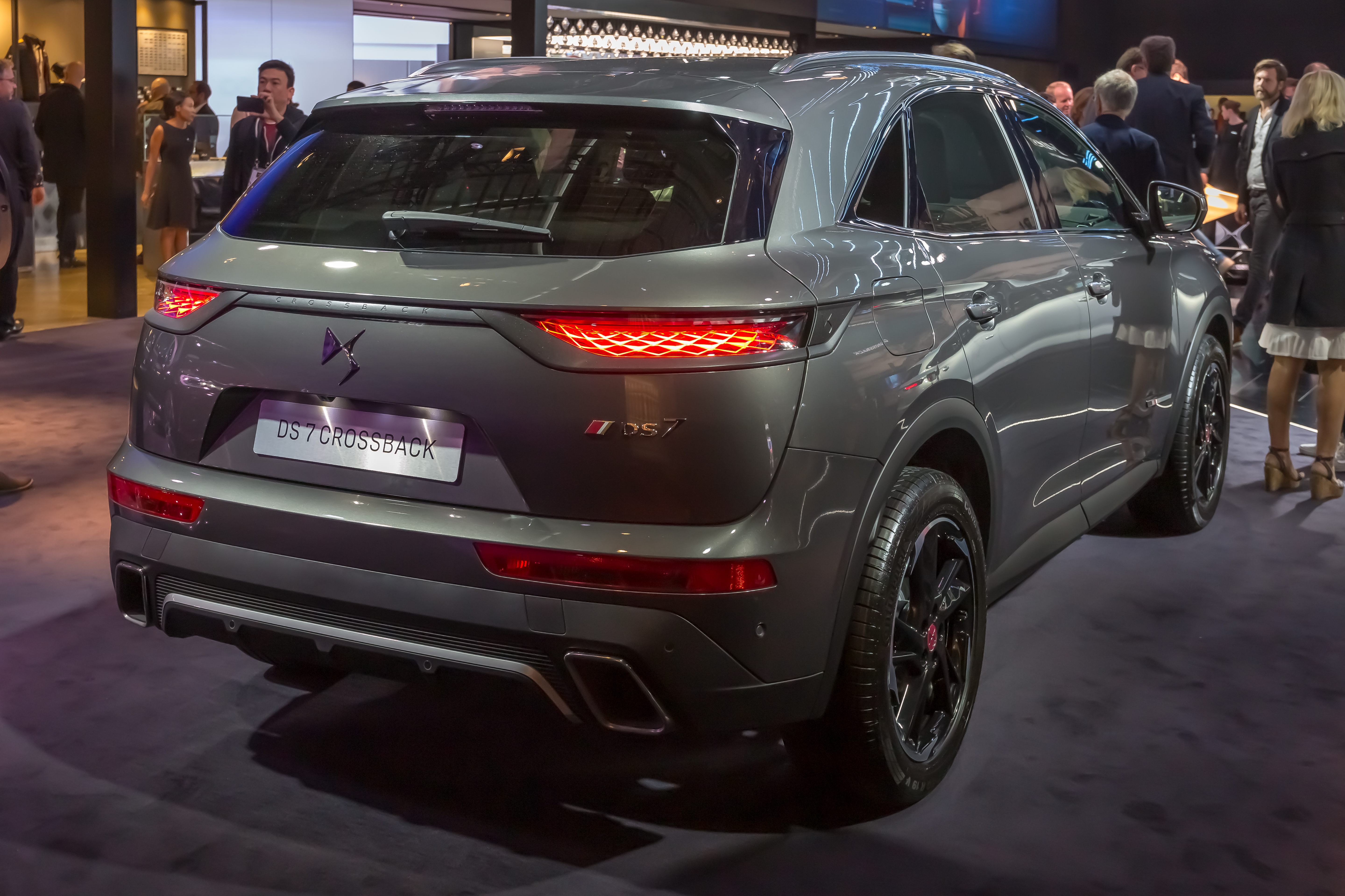 DS, Mondial Paris Motor Show 2018